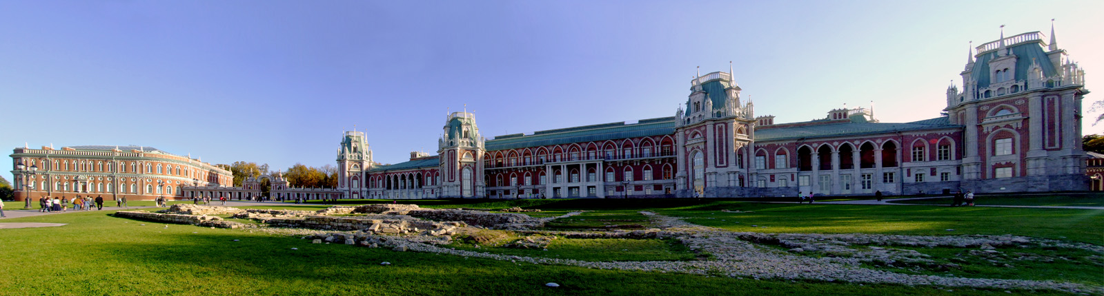 Tsaritsino park